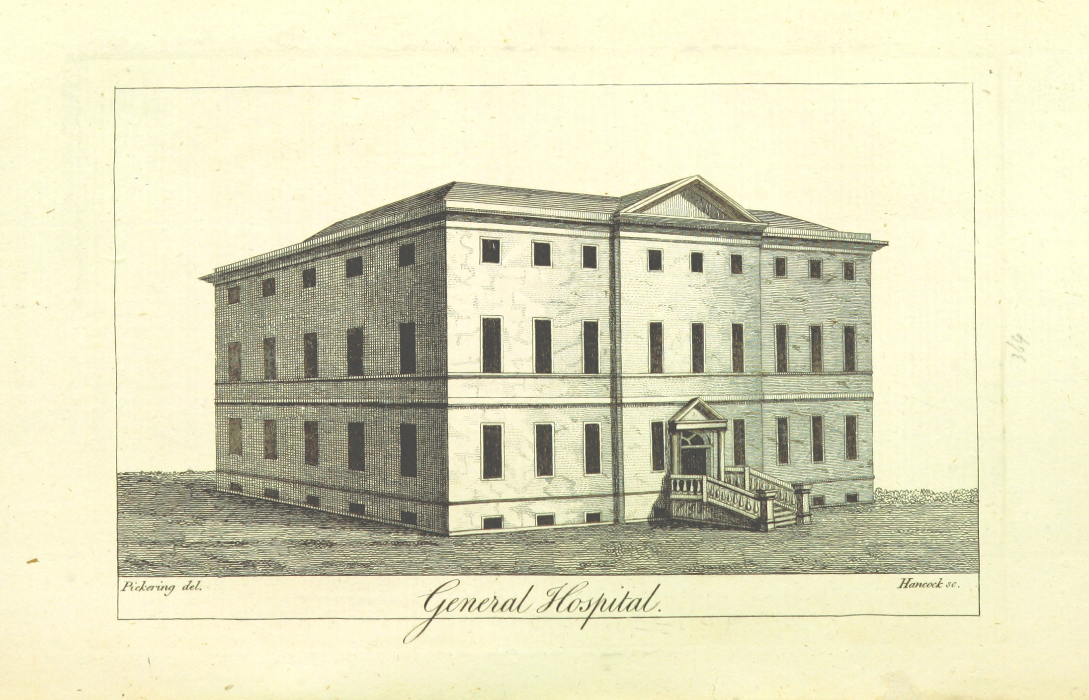 Image extracted from page 535 of An history of Birmingham ... With a new introduction by Christopher R. Erington', by William Hutton. Original held and digitised by the British Library. Copied [ Note: The colours, contrast and appearance of these illustrations are unlikely to be true to life. They are derived from scanned images that have been enhanced for machine interpretation and have been altered from their originals.